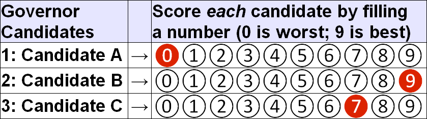 Illustration of a hypothetical ballot on a score voting machine's display screen.